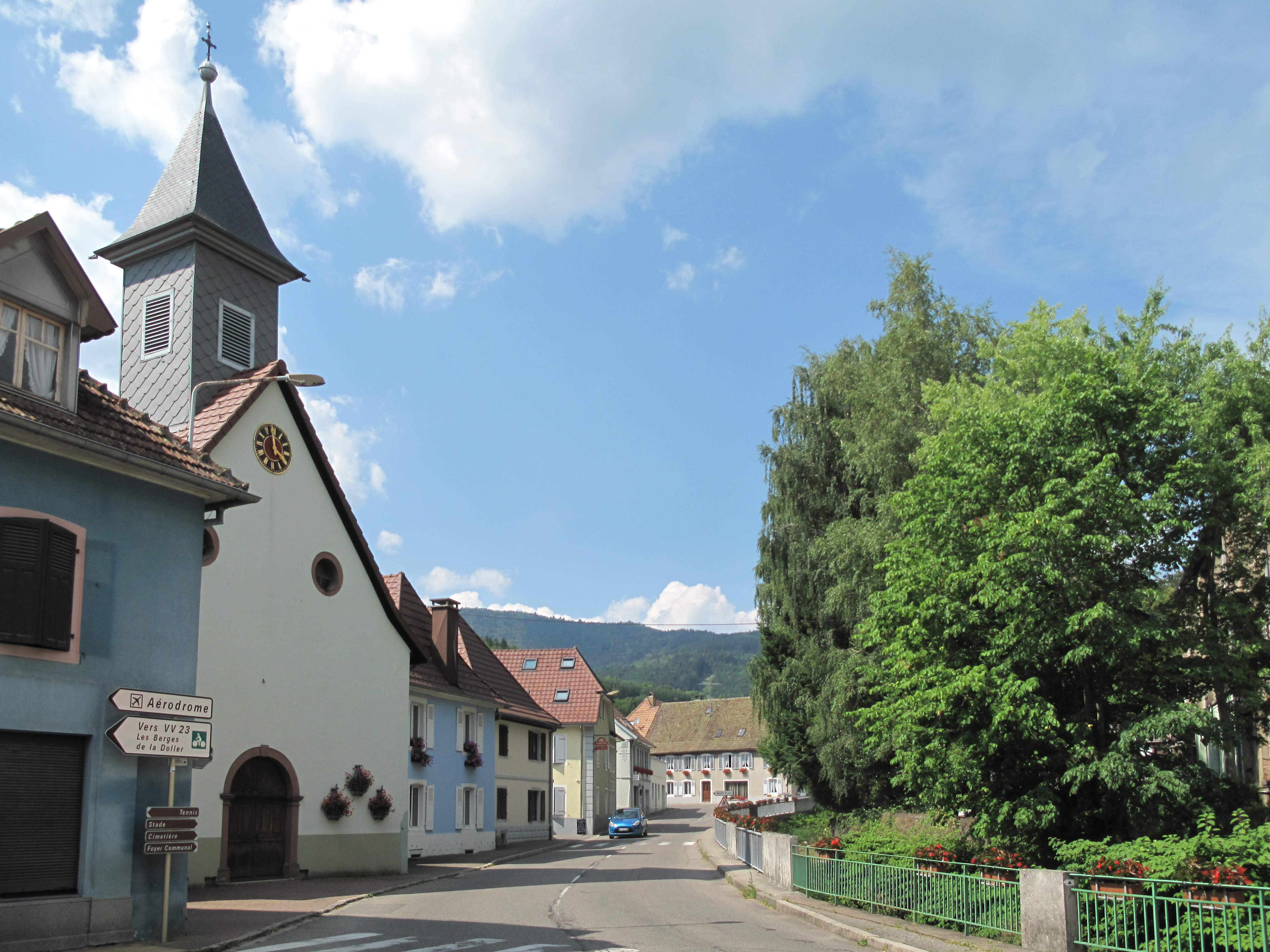 Oberbruck, church (l'église Saint-Antoine-de-Padoue) in the street